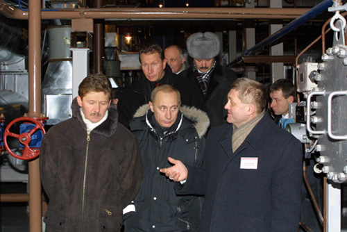 President Vladimir Putin visiting the Zapolyarnoye gas field with Gazprom Chairman Alexei Miller, to the left, and Alexander Ananenkov, Yamburggazdobycha CEO. Novy Urengoy, Yamalo-Nenets Autonomous Okrug (Russia).